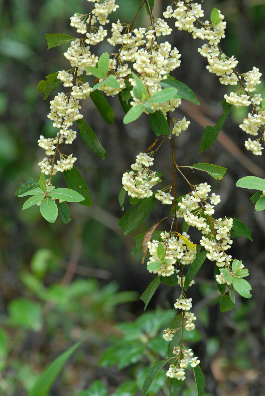 Litsea cubeba foliage and flowers. Photo taken on Anma Mountain (鞍馬山), Da Xue Shan Forest Recreation Area (大雪山森林遊樂區), Tzuyu Village, Hoping Hsiang, Taichung County, Taiwan, with a Nikon D200 digital camera.